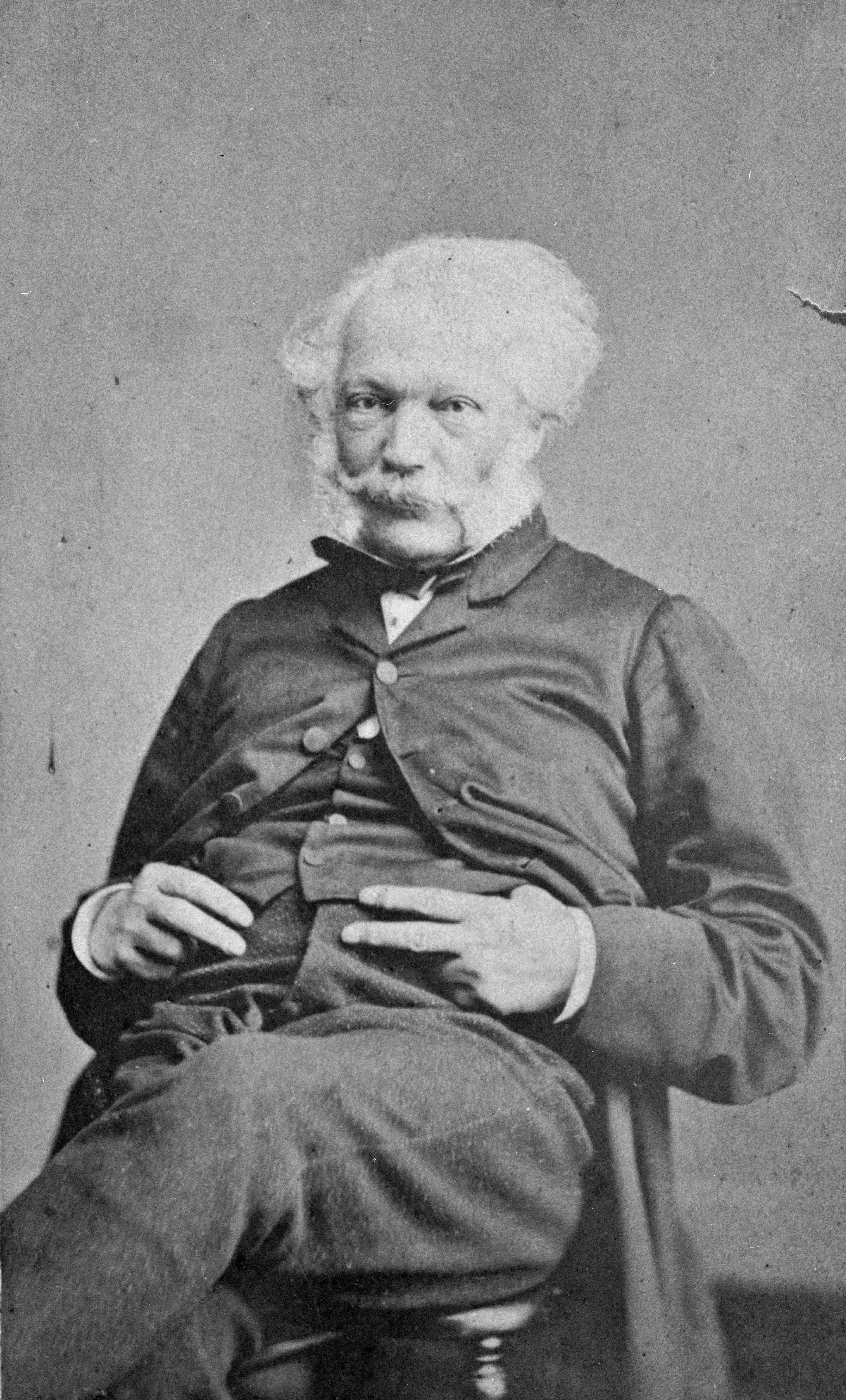 Portrait of Alfred de Bathe Brandon (1809-1886), Wellington solicitor and early settler, taken ca 1860s by an unknown photographer.